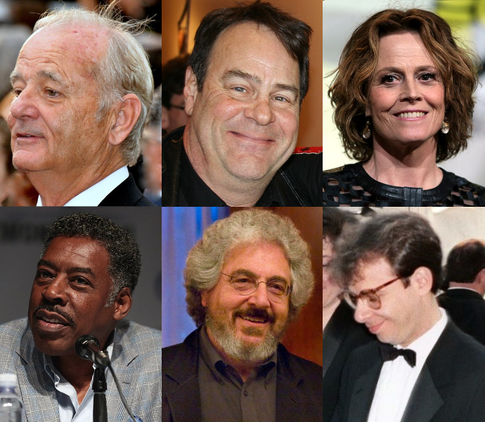 This file is a derivate work of the above named images to illustrate the cast of the 1989 supernatural comedy film Ghostbusters II.